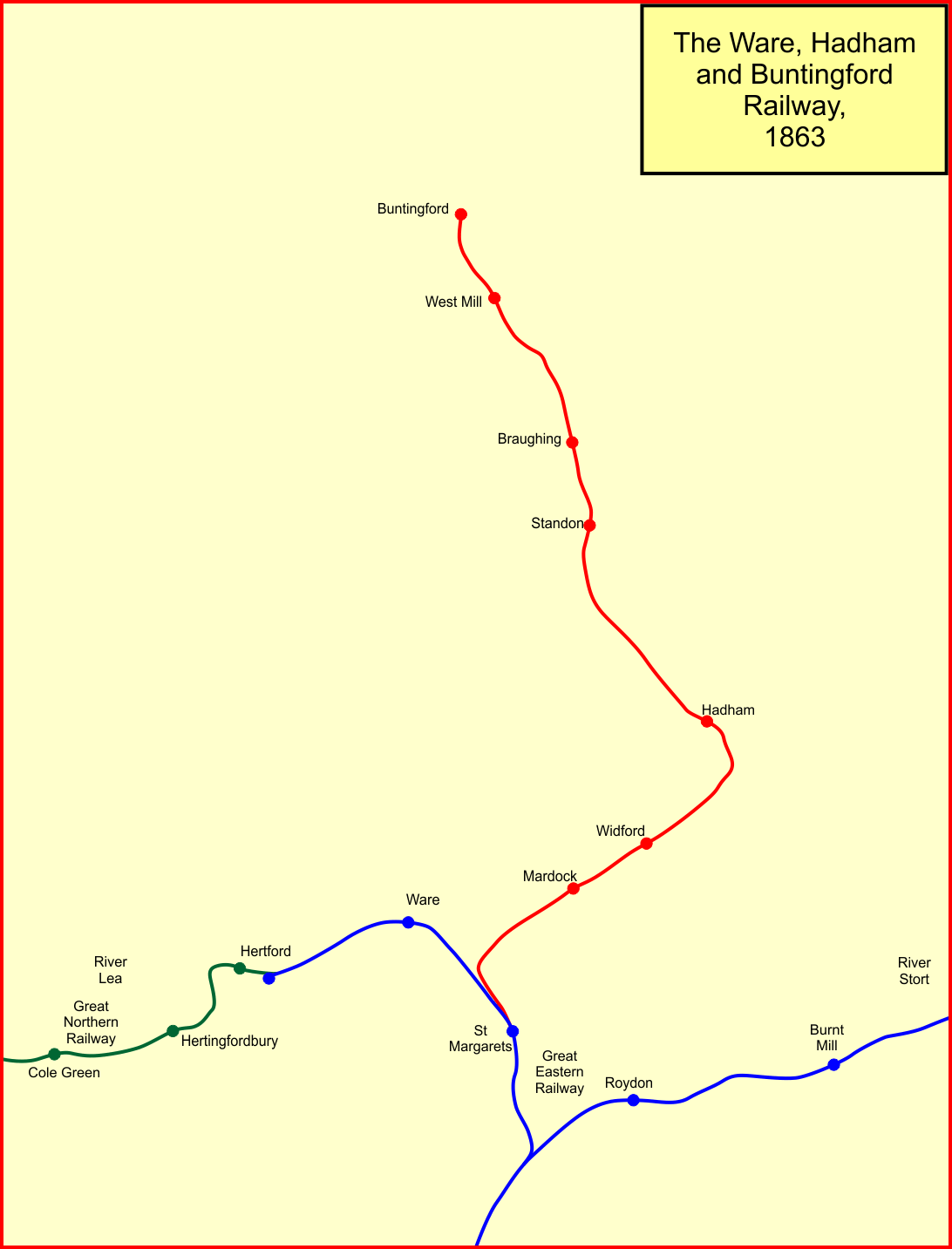 System map of the Ware, Hadham and Buntingford Railway, England, when it opened to passengers in 1863